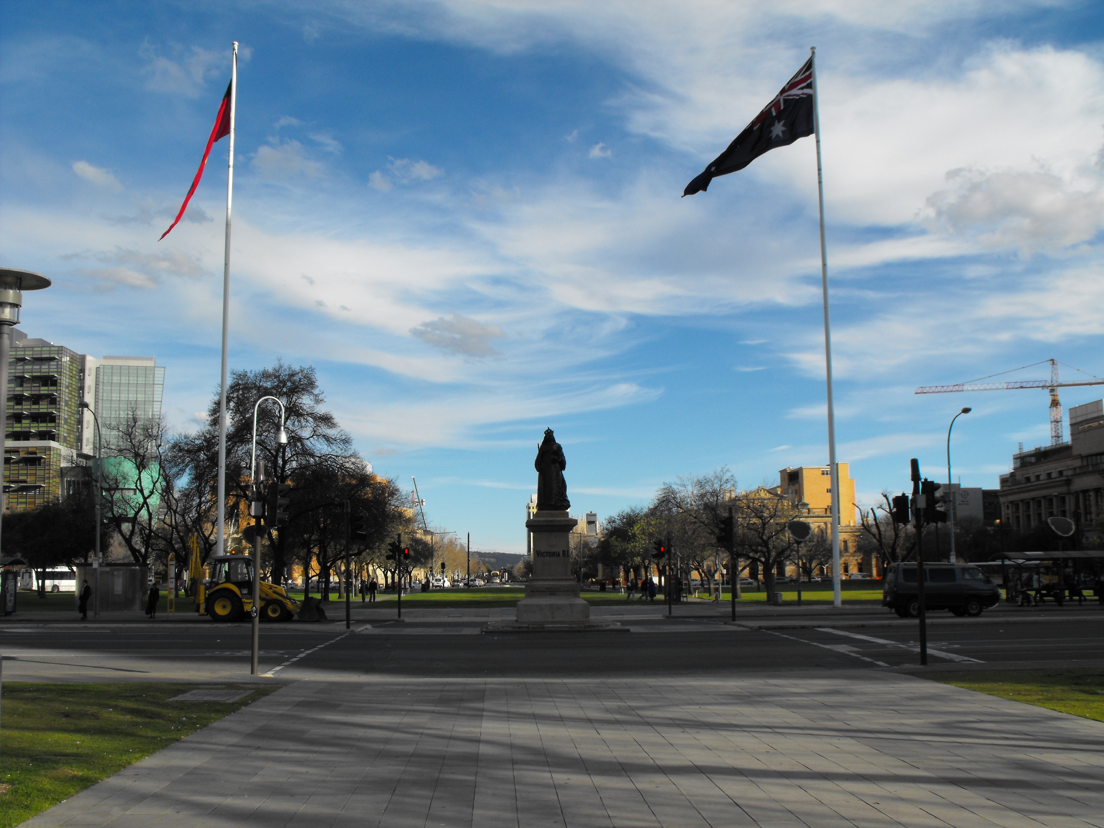 Victoria Square looking south